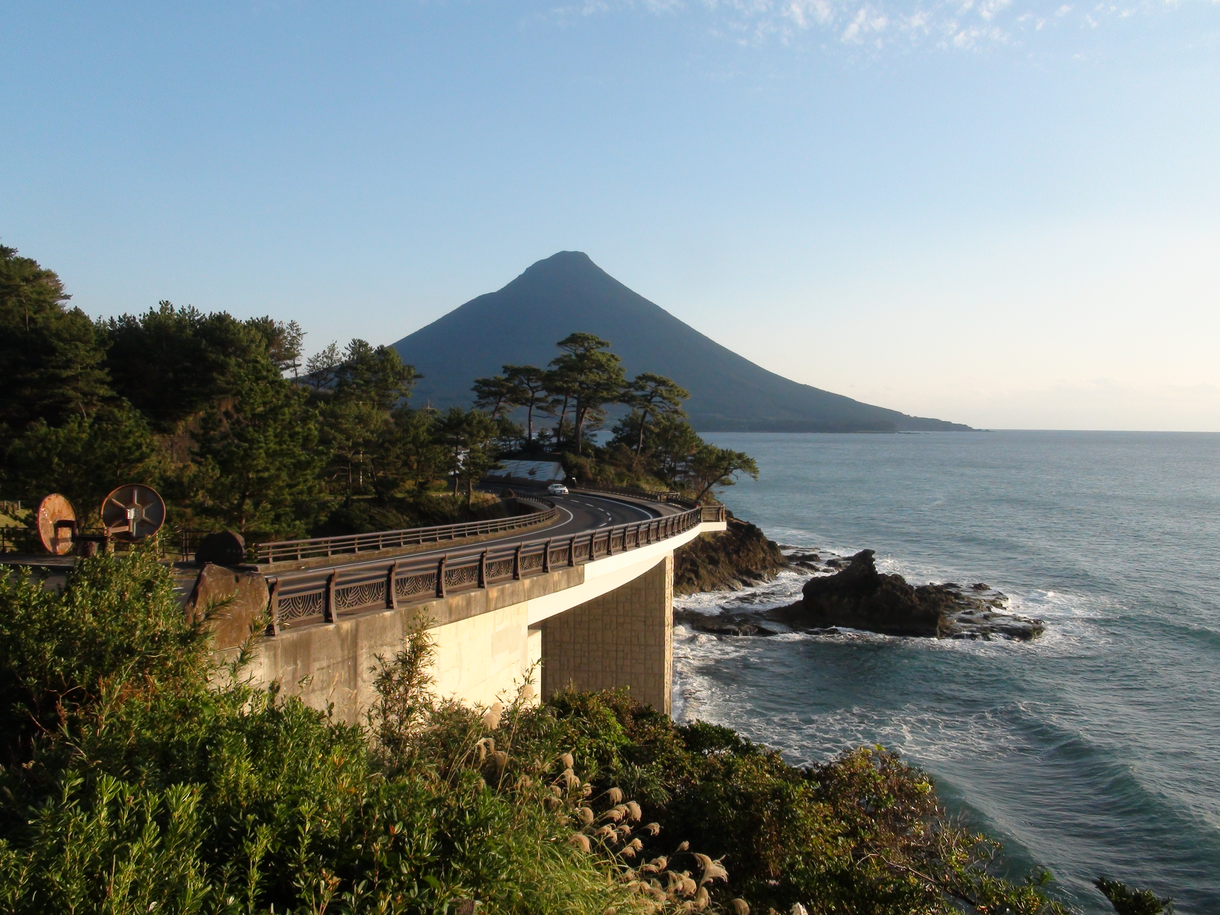 View of Kaimondake from Sebira natural park.